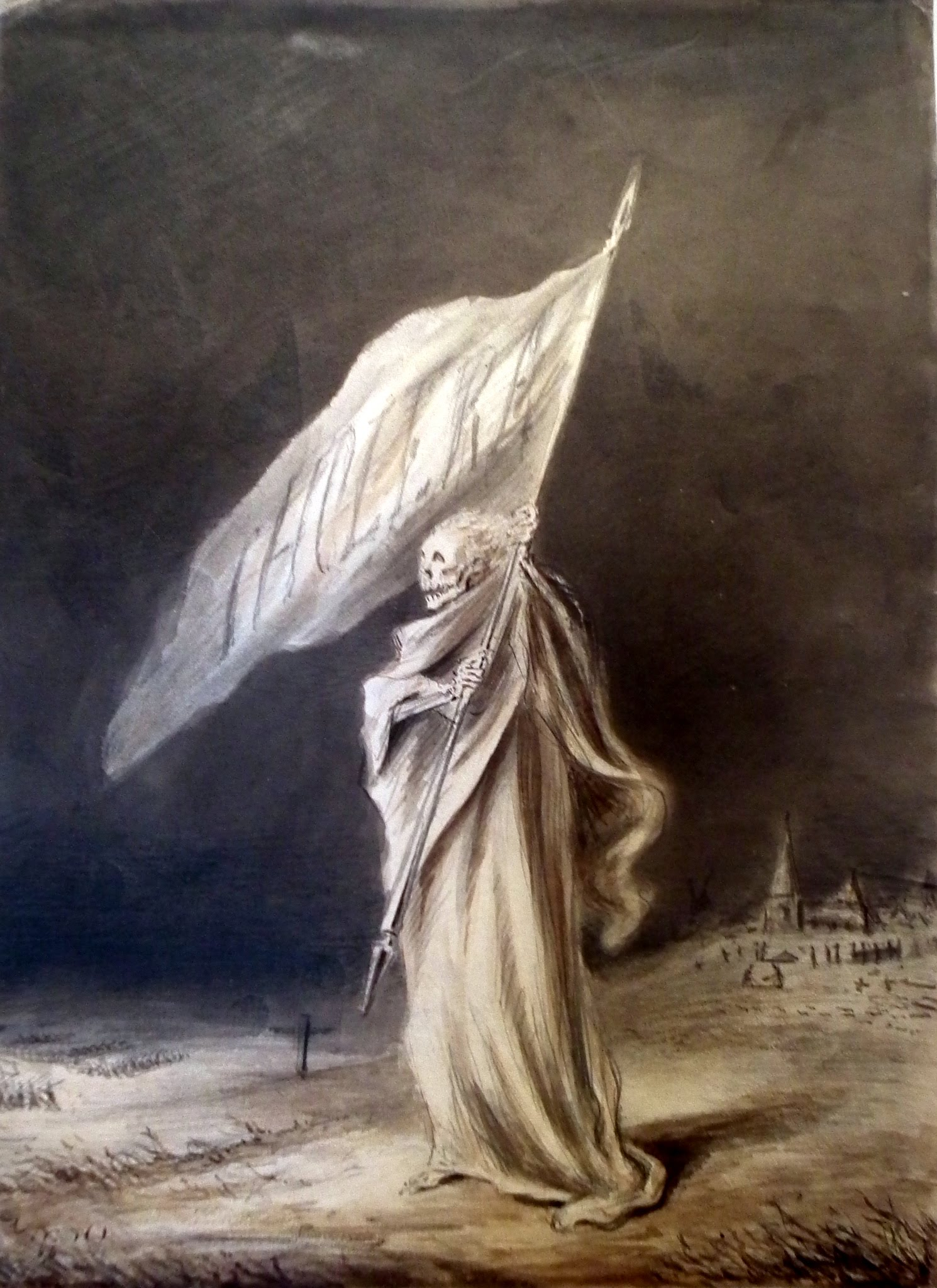 Guardian of our borders (De wachter aan onze grenzen) 1866, Alexander Ver Huell